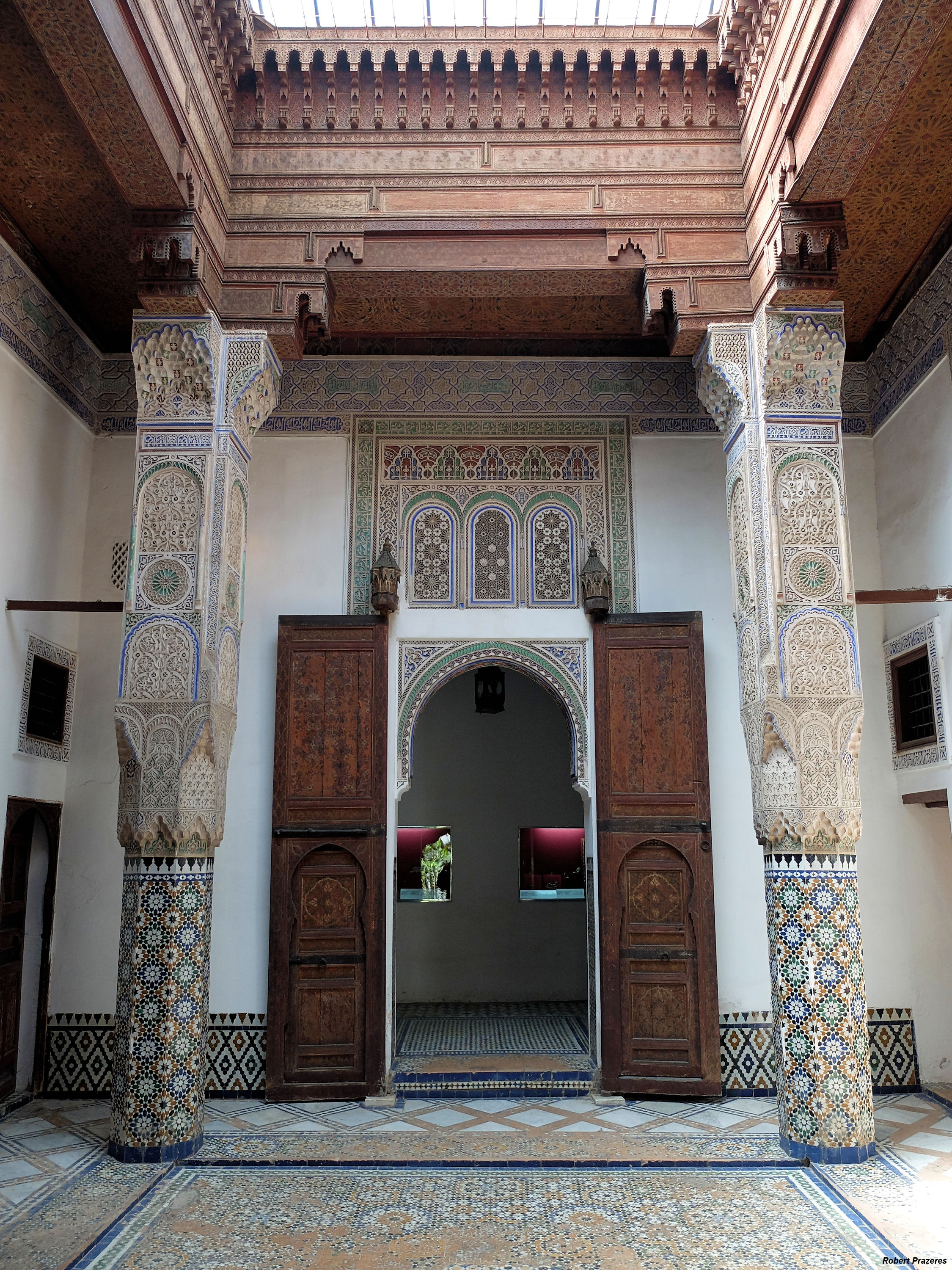 Dar Jamai Museum, Meknes.